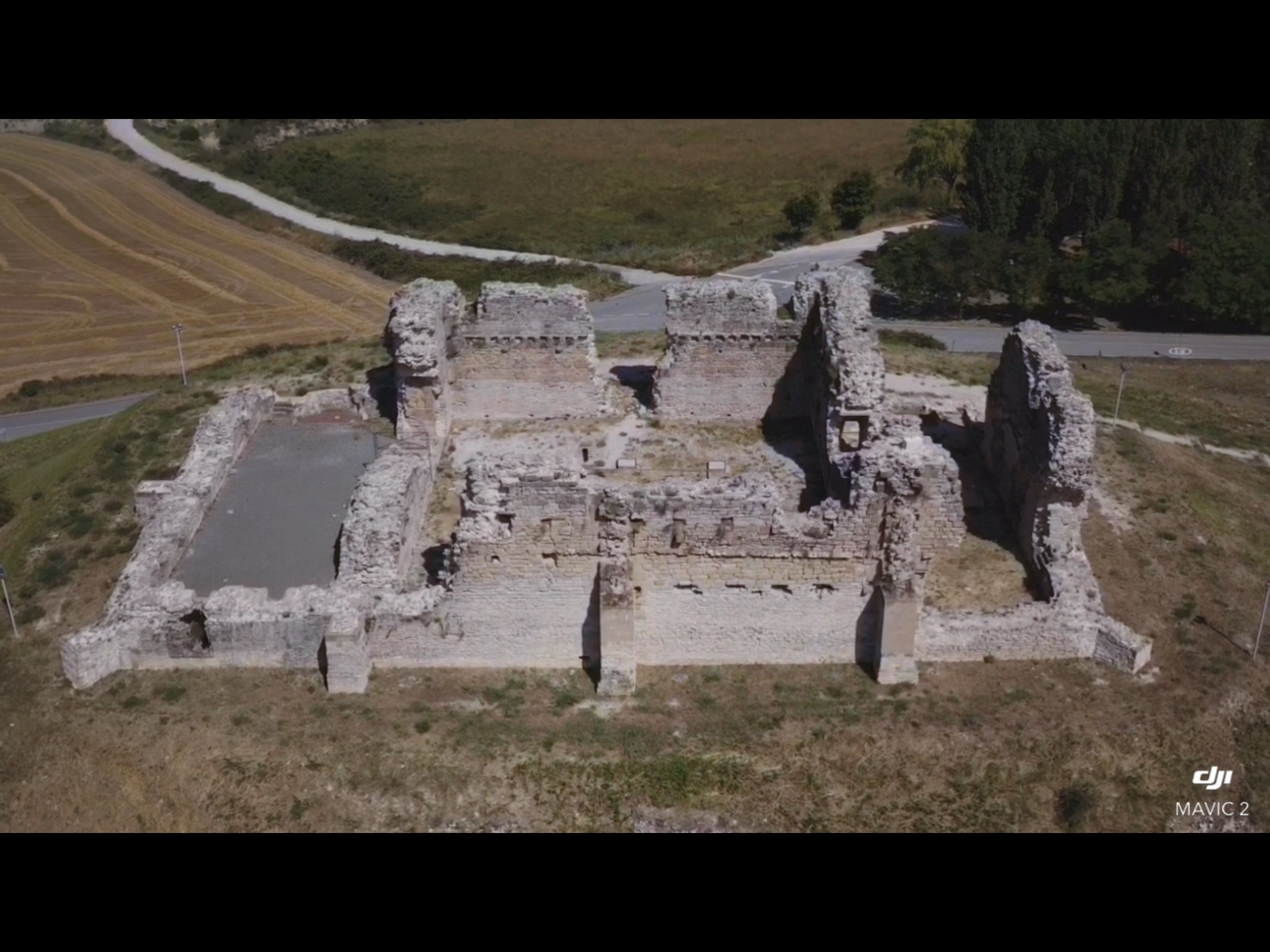 Tiebas castle